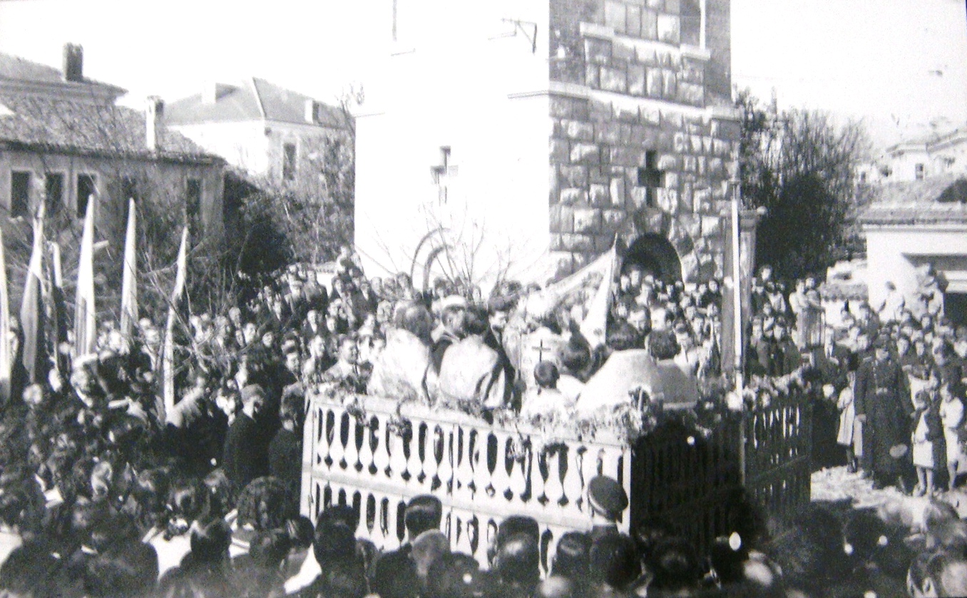 Day celebration of Easter in the church "Sv. Dimitrija " in Bitola, between the two world wars. 1918-1941 This media file is produced by Wikipedian in Residence in Category:Wikipedian in Residence at DARM in 2016.